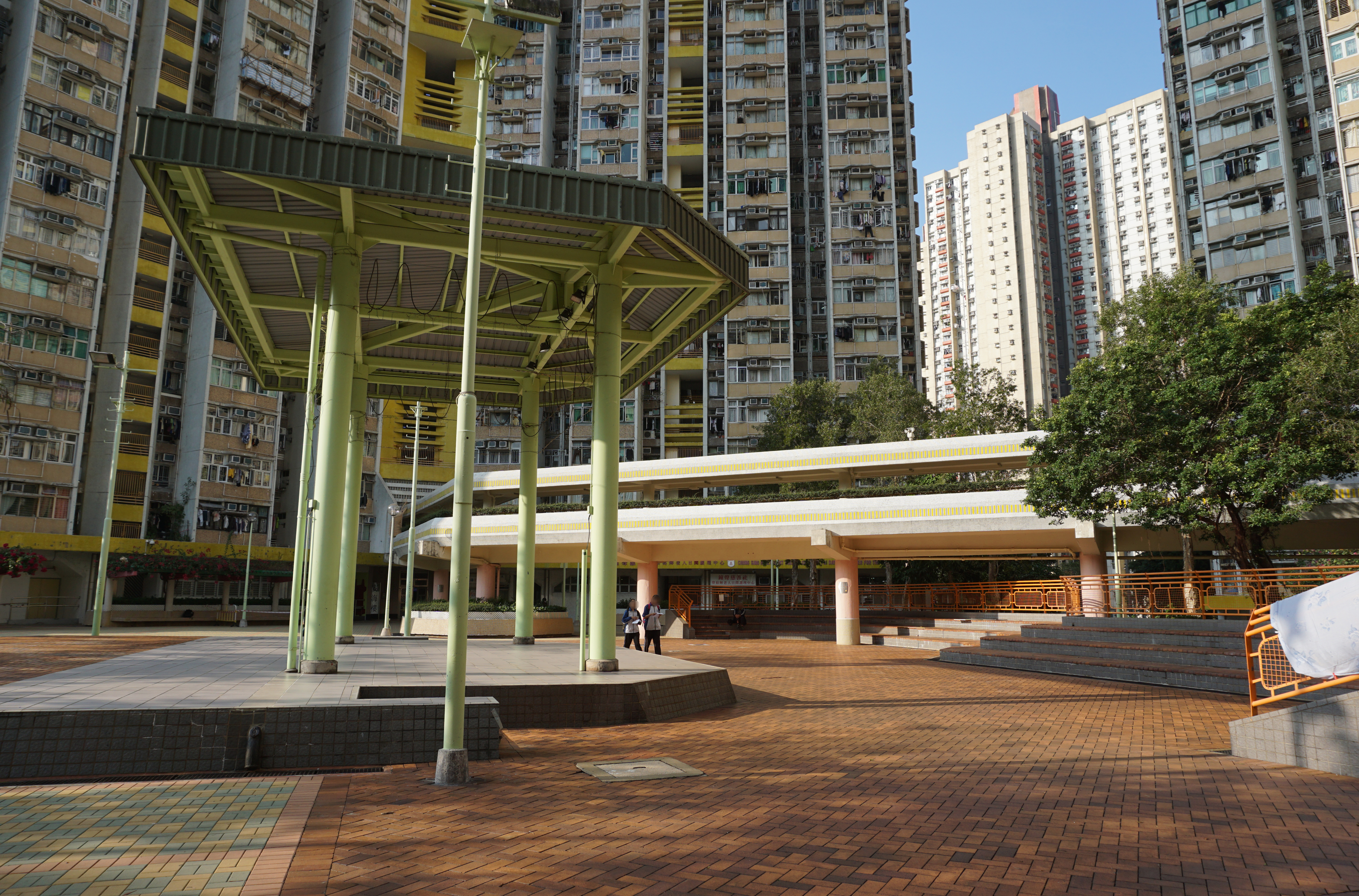 Cheung On Estate in Tsing Yi, Hong Kong.